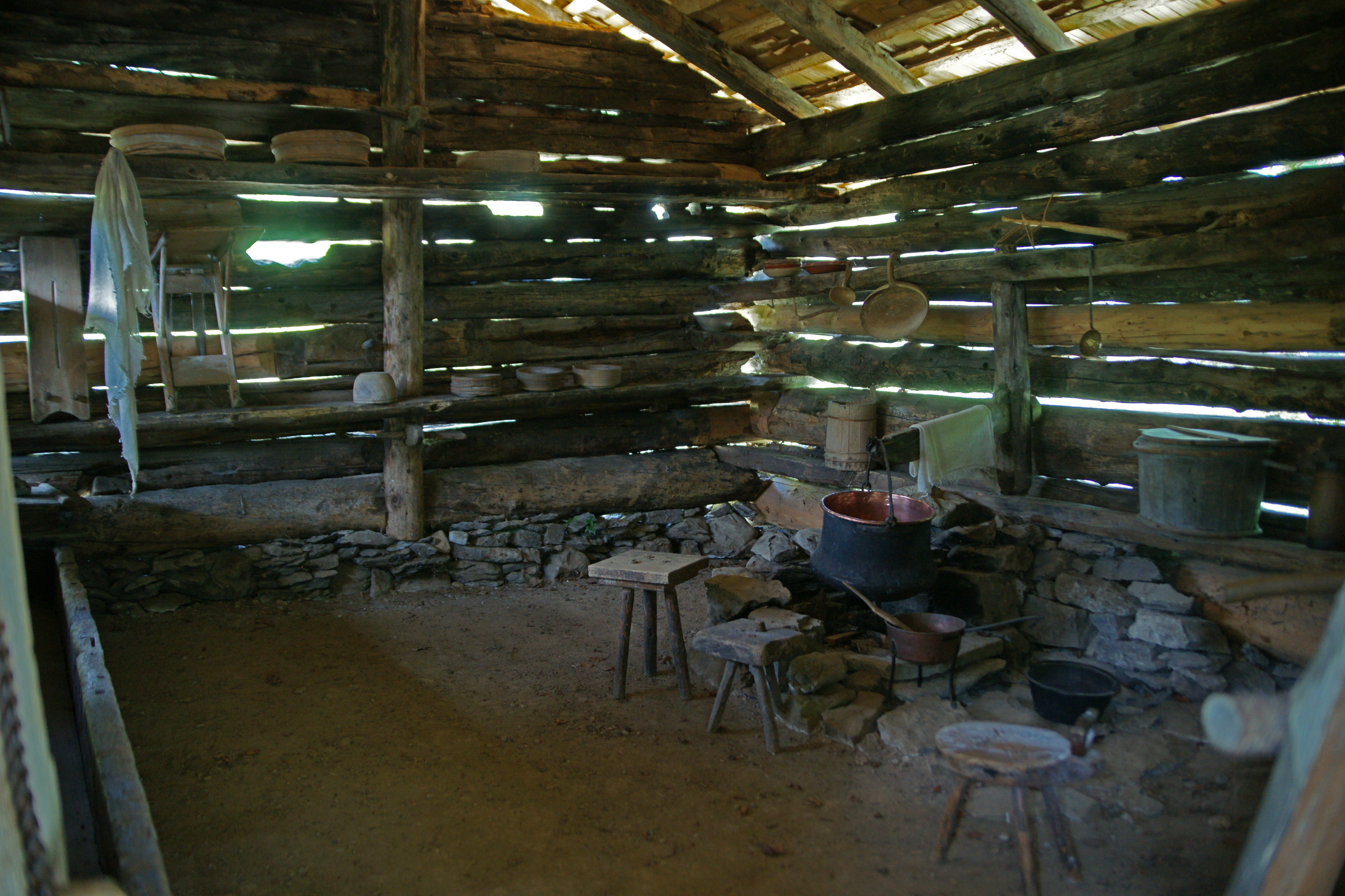 Swiss Open Air Museum Ballenberg: Herdsman's cottage "Litschentellti" of Axalp BE (1520)